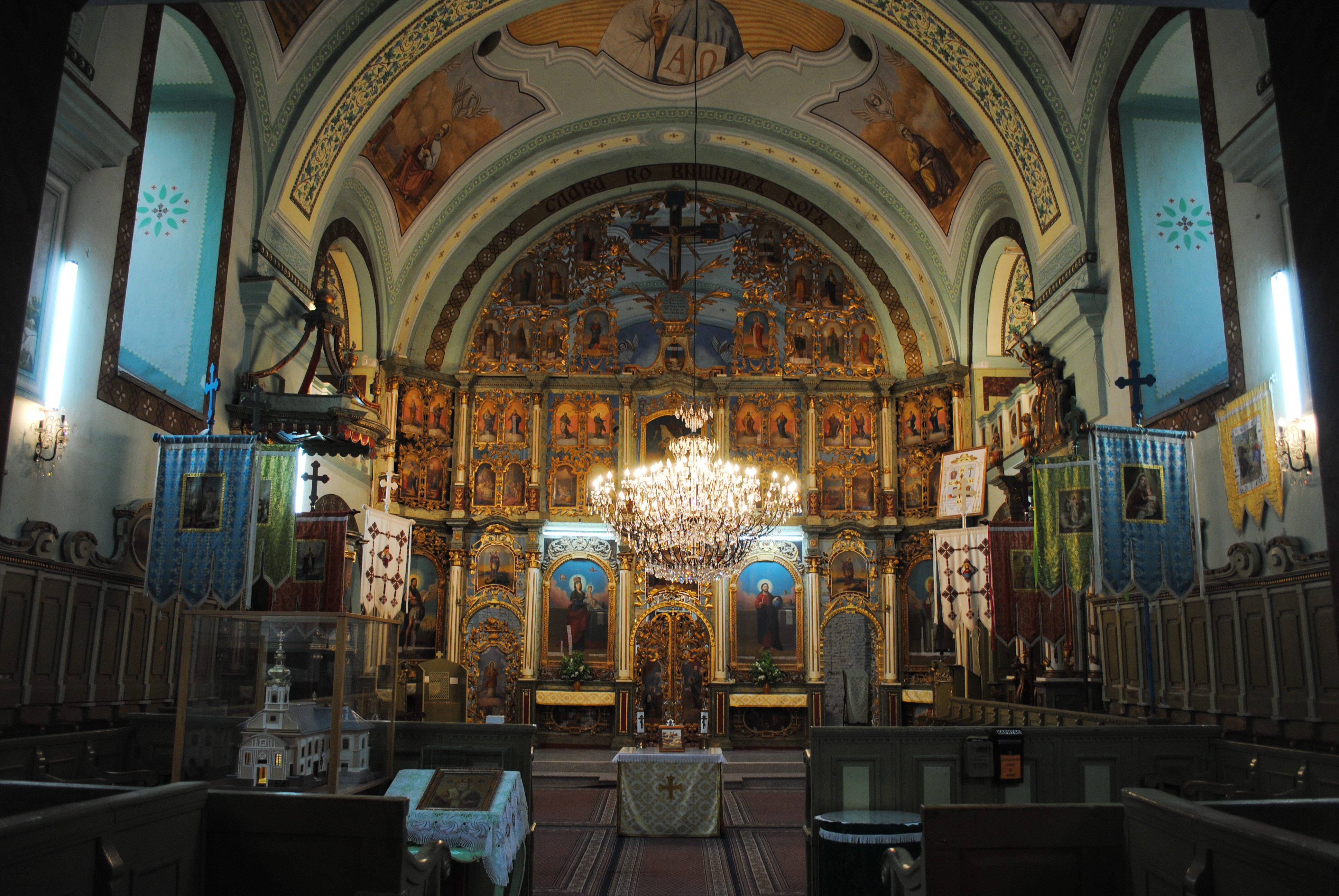 Interior of the Cathedral of Saint Nicholas in Ruski Krstur, Serbia Srpski (latinica): Rusinsko Grkokatolička crkva u Ruskom Krsturu posvečena je Prenosu moštiju Svetog oca Nikolaja